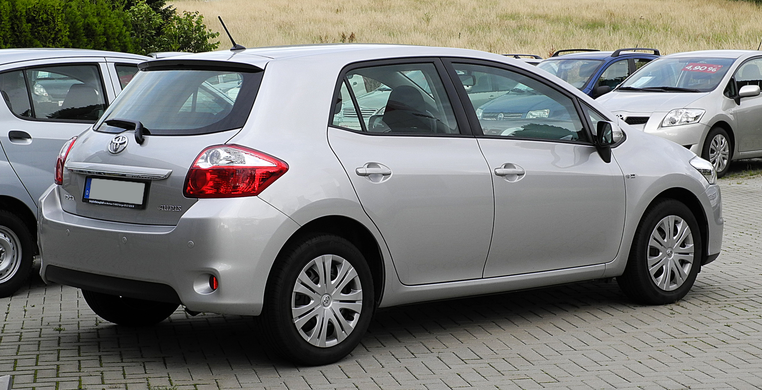 Toyota Auris 1.6 Life+ (Facelift)